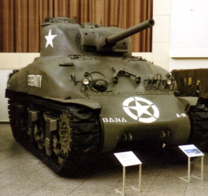 M4 Sherman, on display in the military museum of the german Bundeswehr in Dresden